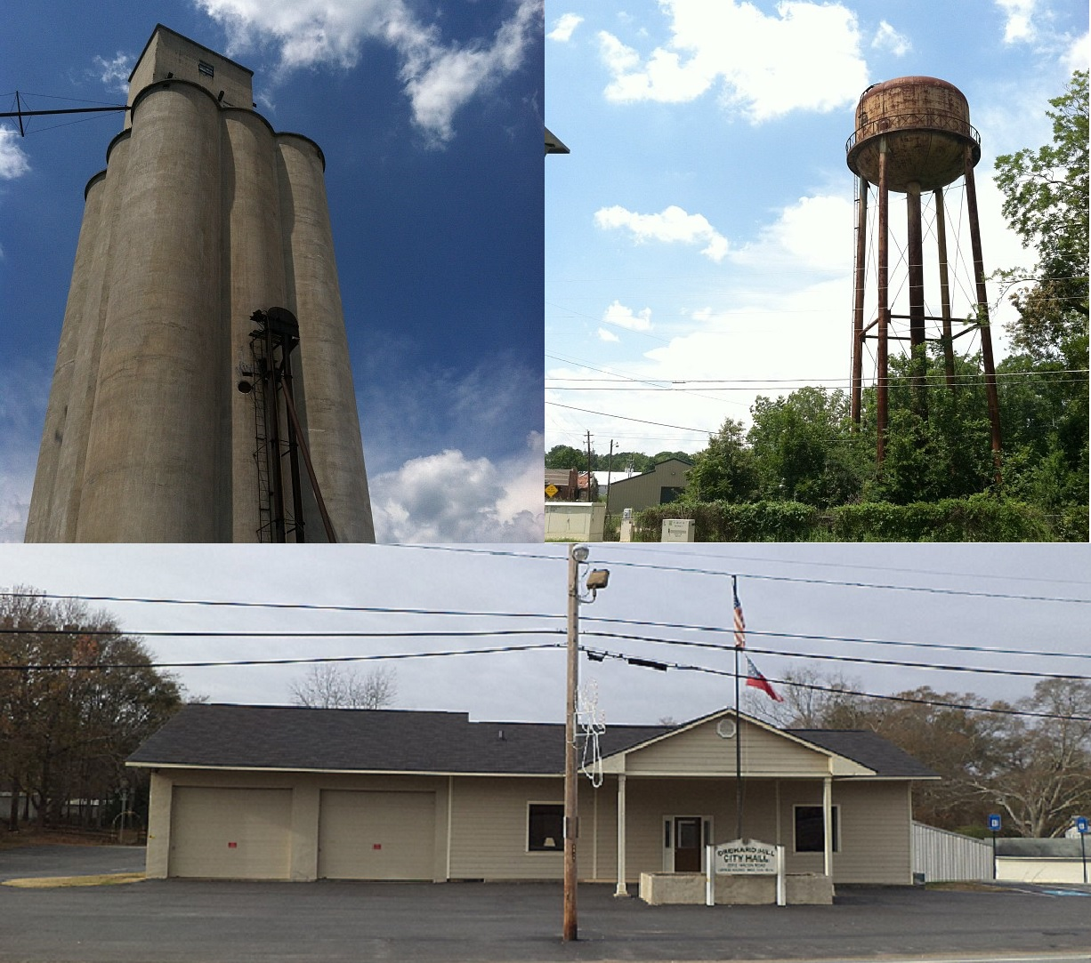 Collage of images from Orchard Hill, GA